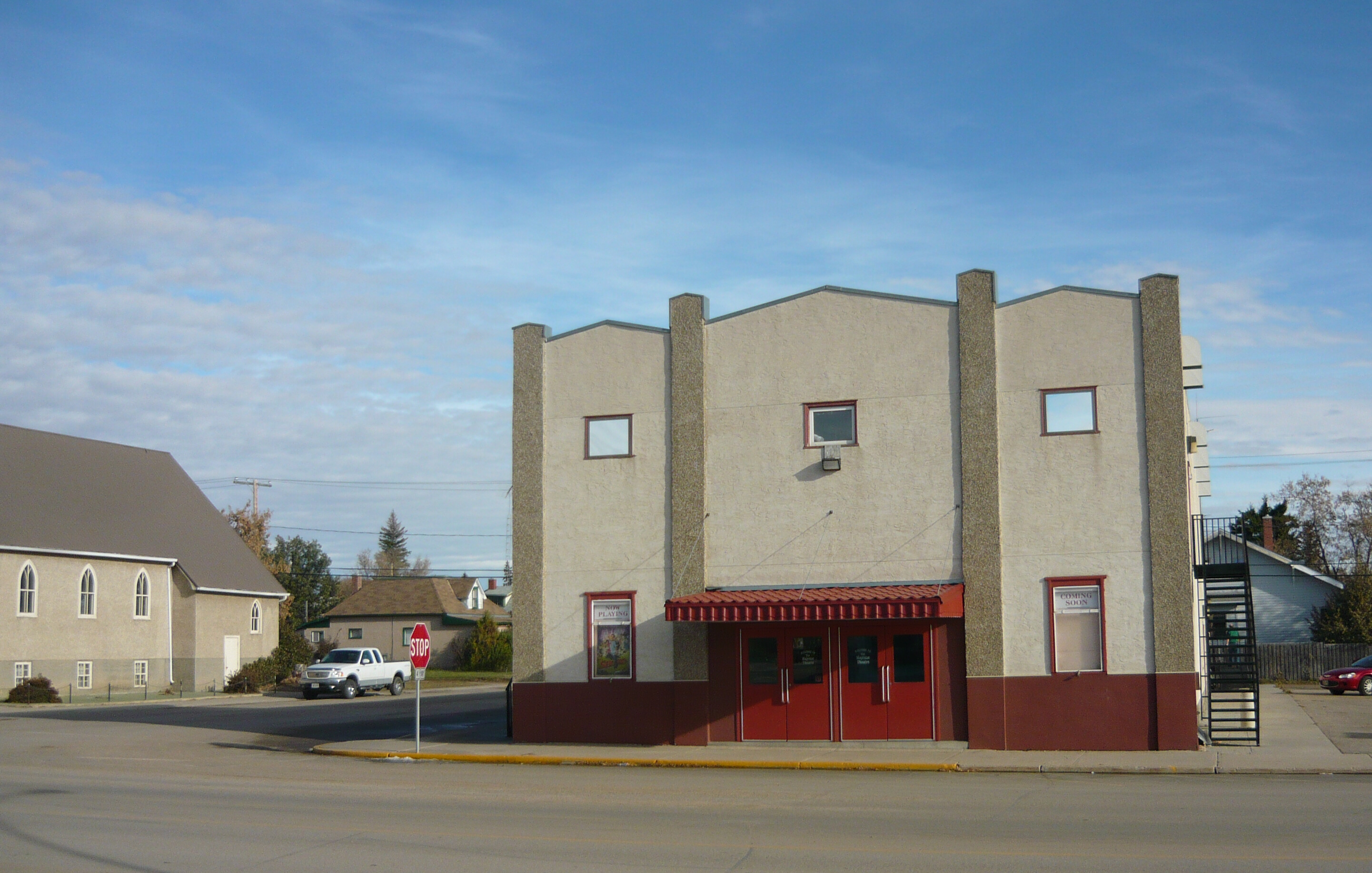 Majestic Theatre at 322 Main Street (intersection of Fourth Avenue East), Biggar, Saskatchewan, Canada. This theatre was built in 1911, although it has been enlarged and substantially changed since then. In its current form, the building dates from 1928.